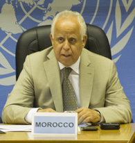 Members of UN Security Council, M. Alexis Lamek (France) and Mohammed Loulichki (Maroc) during meeting with MONUSCO SRSG Martin Kobler and Goma Head of Office Ray Torres at MONUSCO Headquarters in Goma, the 6th of October 2013. © MONUSCO/Sylvain Liechti